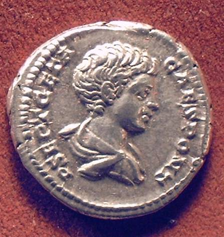 Denarius of Geta Roman emperor; son of Septimius Severus and brother of Caracalla Geta